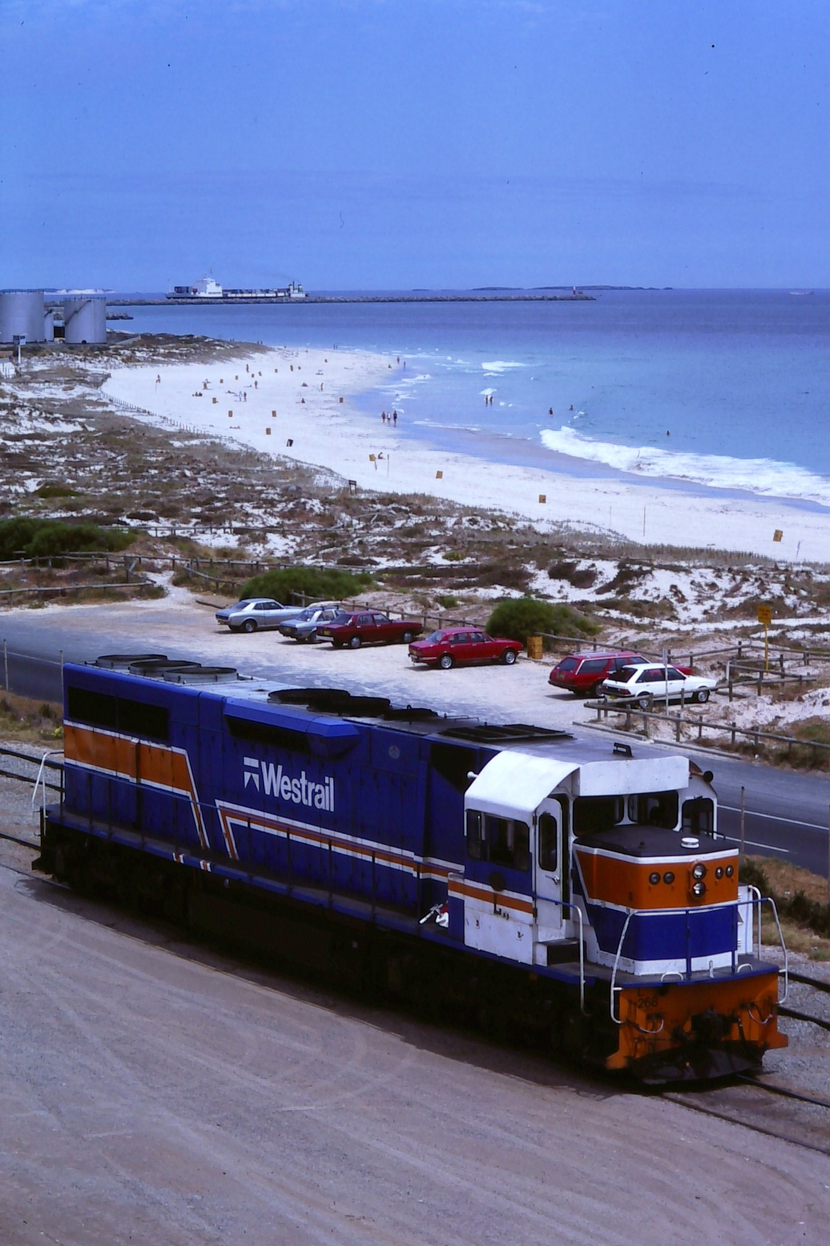 L268, in its unique Westrail blue livery, at Leighton marshalling yard, North Fremantle, Western Australia. In the background are Leighton Beach, the North Mole of Fremantle Harbour (with container ship behind it) and Carnac Island.Kodachrome slide converted by Kaiser Baas Photo Maker Pro into a digital image.